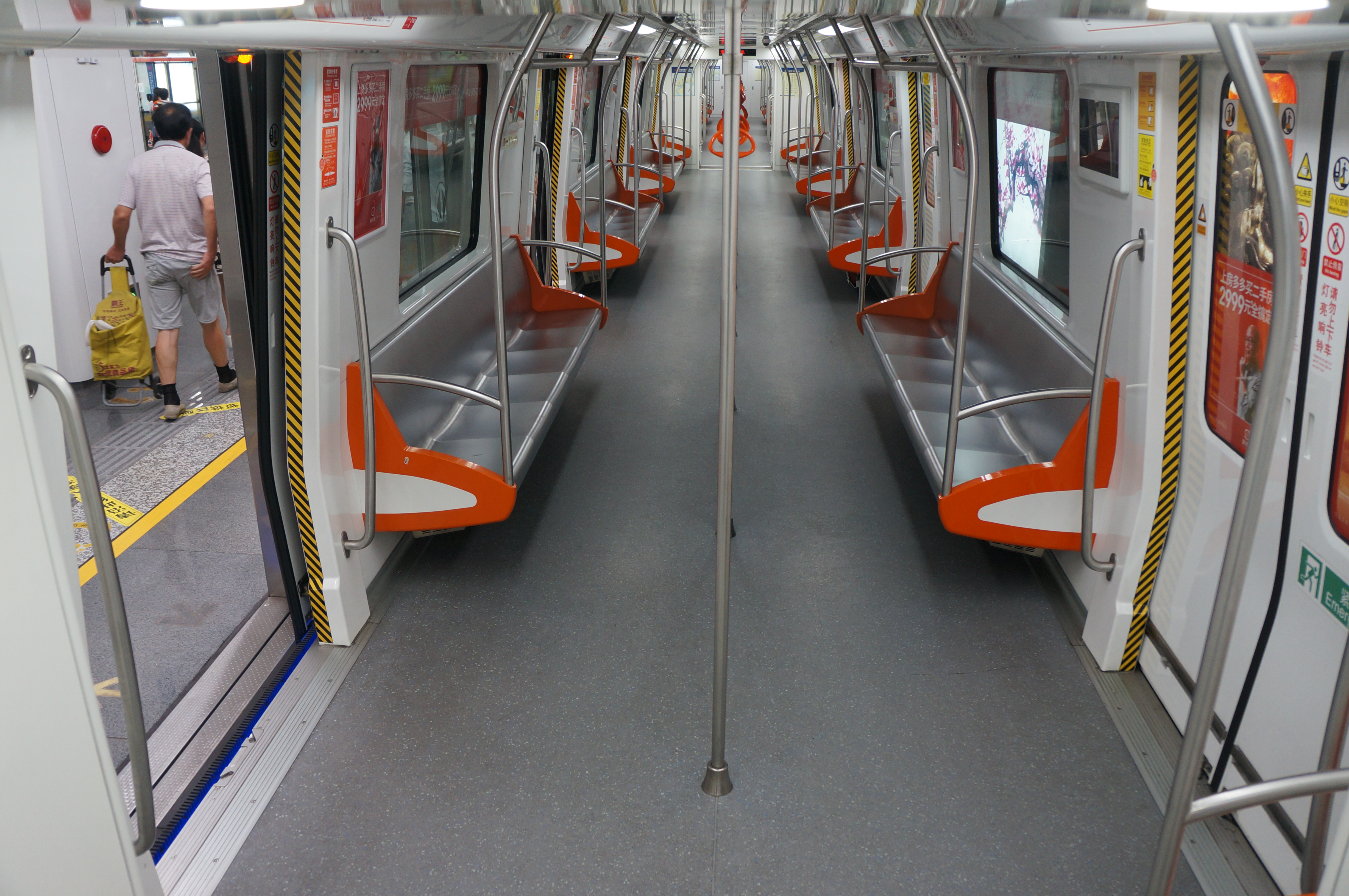 201607 Interior of HZMetro L2 vehicles